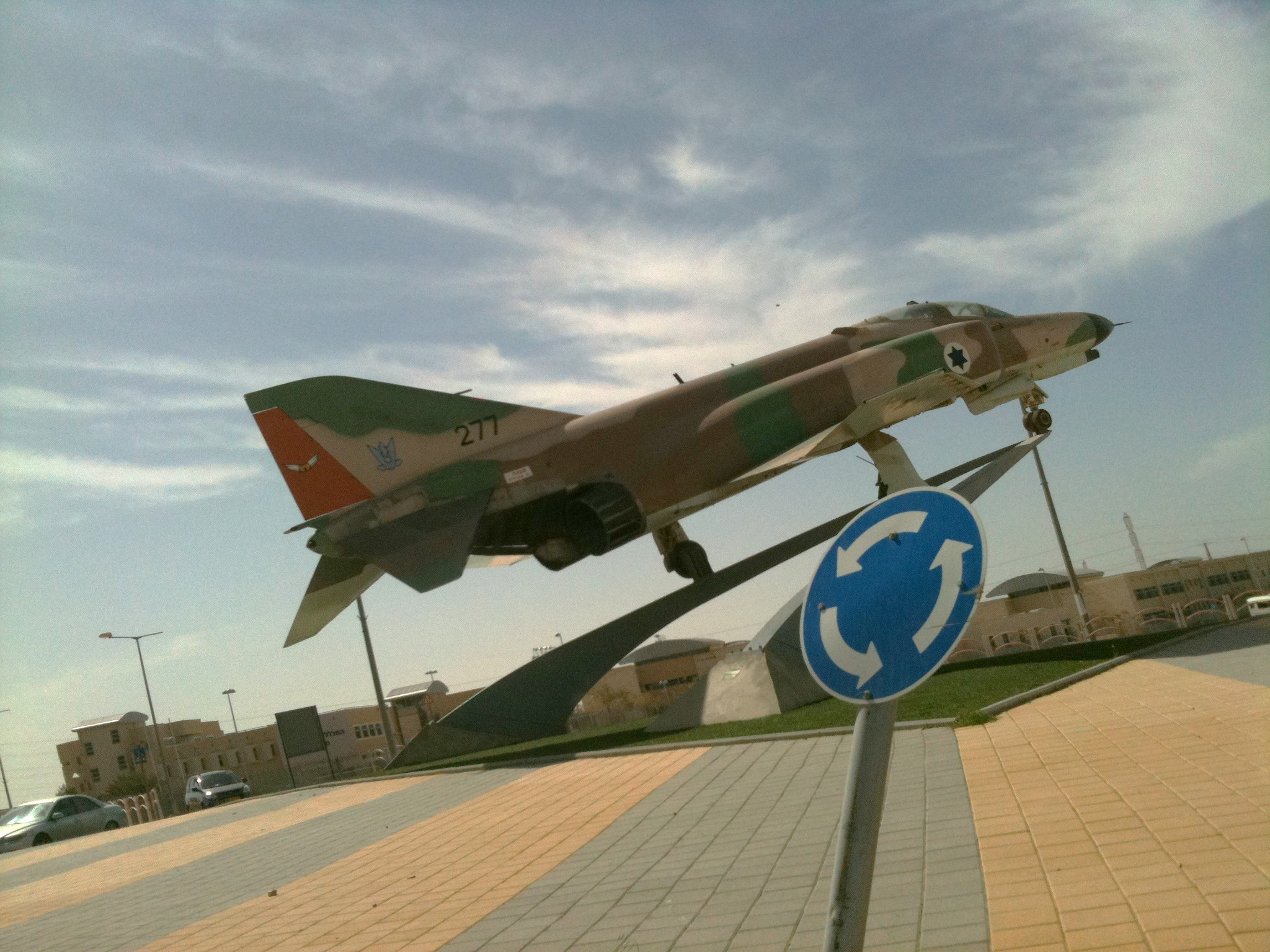 Old F-4 Phantom II Airplane in front of the Air Force boarding technique high school, Naot Lon, Beersheva